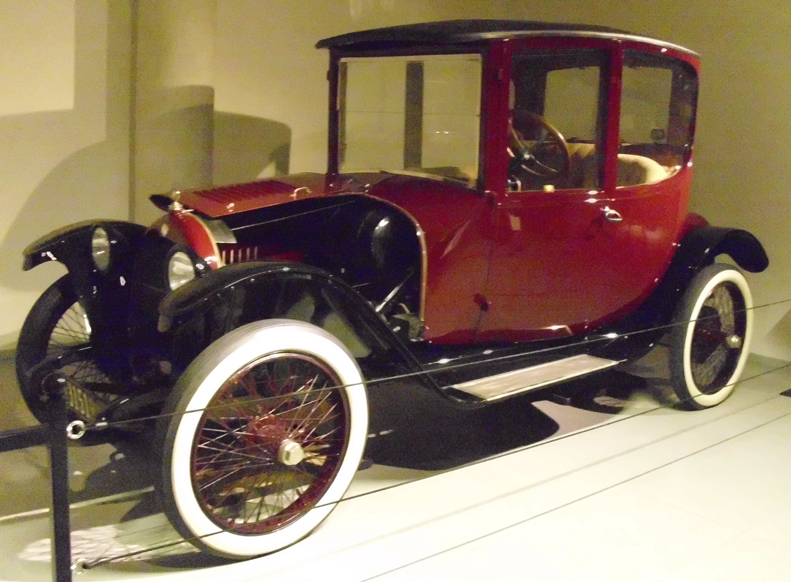 Woods Dual Power 1917